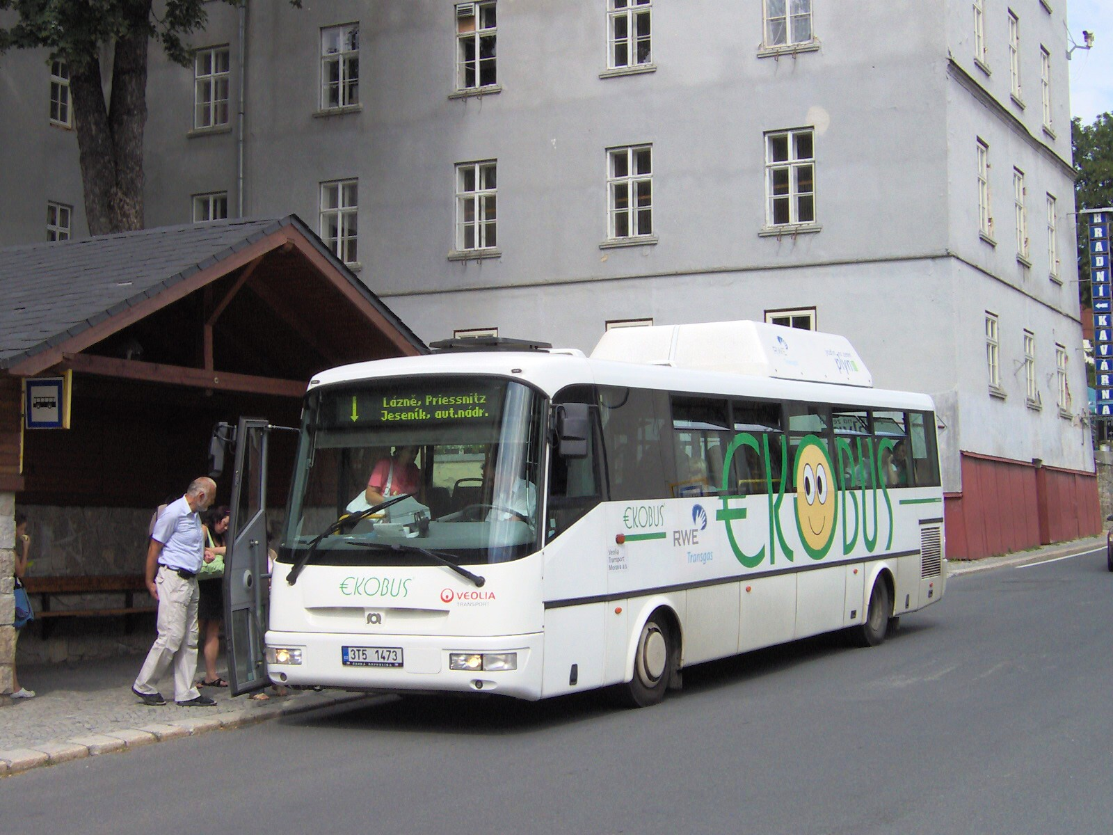 SOR CG 10,5 (Ekobus) bus in Lázně Jeseník, Czech Republic